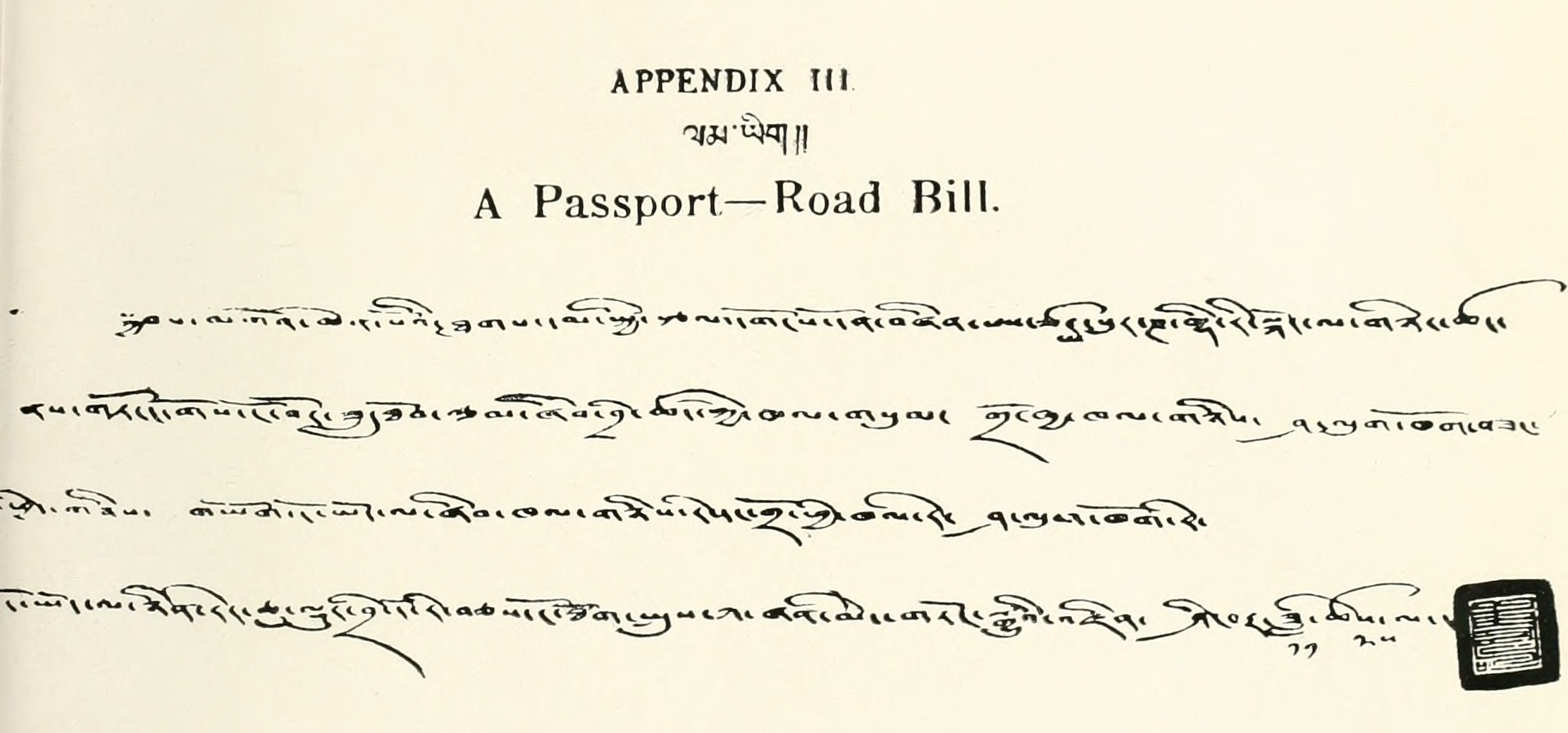 A Tibetan passport(lam-yig) from 6th Panchen Lama to Puran Gir (aka Puren-giri) in the Year of Wood Snake(1785 AD).